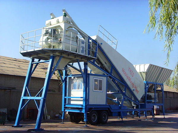 Mobile concrete plant is a kind of special construction equipment, which is developed for construction and emergency repair of airport runways, roads, bridges and other generous amount of concrete work.Needn't to fix and debugging in the construction site, rapid assembly and directly start to work.